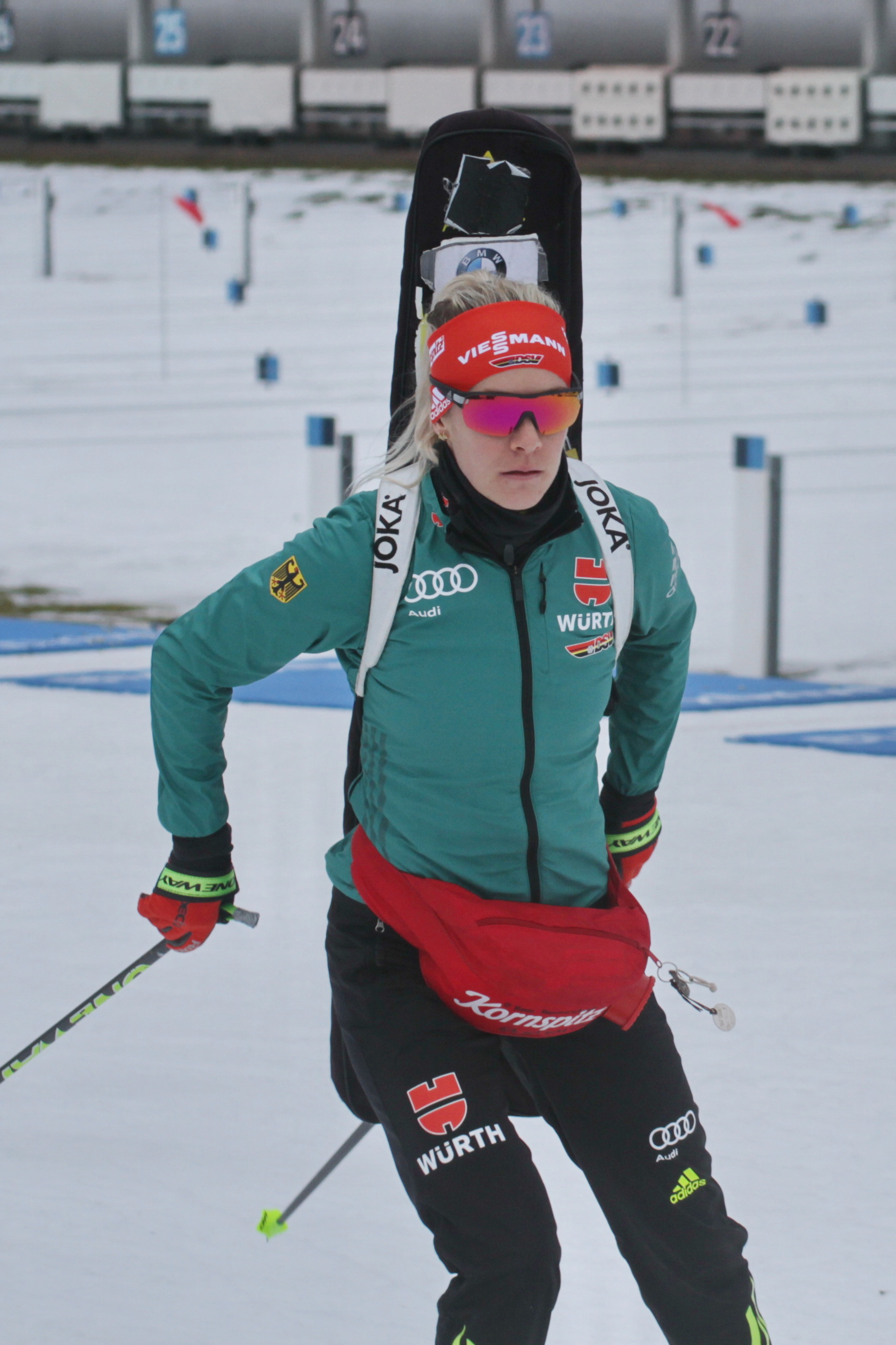 2018 Oberhof Biathlon World Cup - Pursuit Women